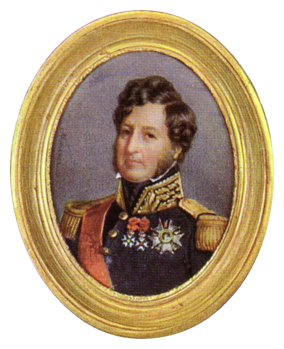 Louis Philippe, King of France